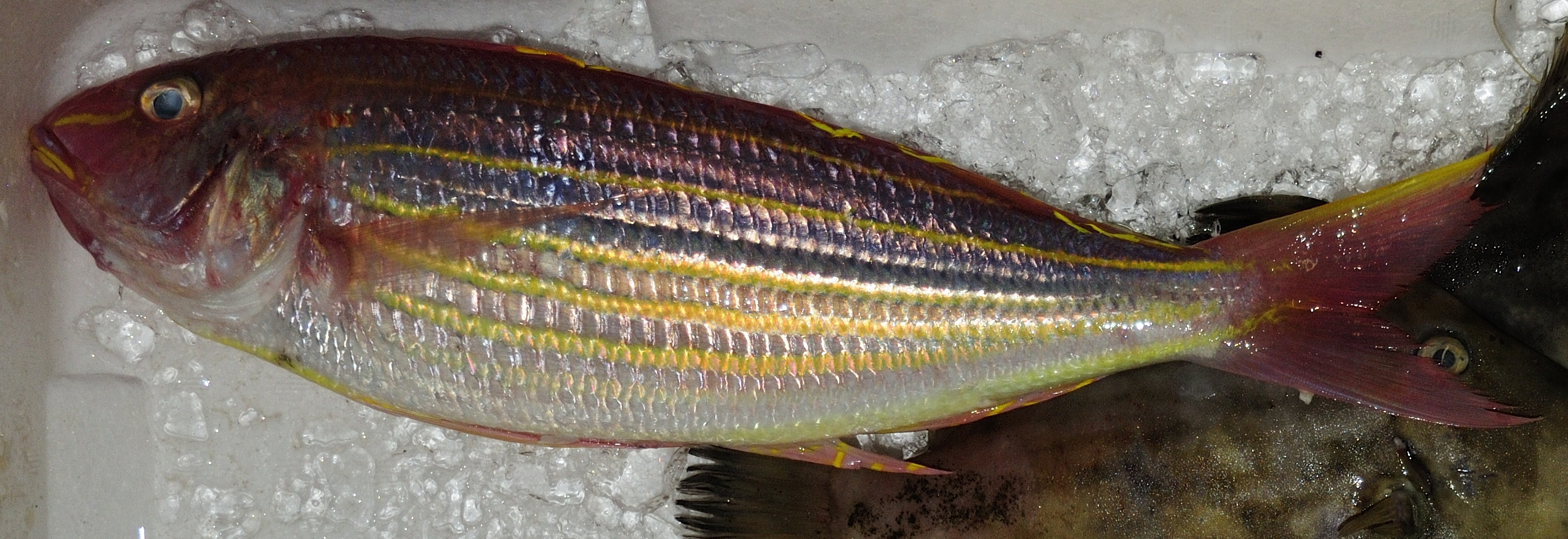 Nemipterus tambuloides (det.: Haplochromis) on the fish market in Tokyo